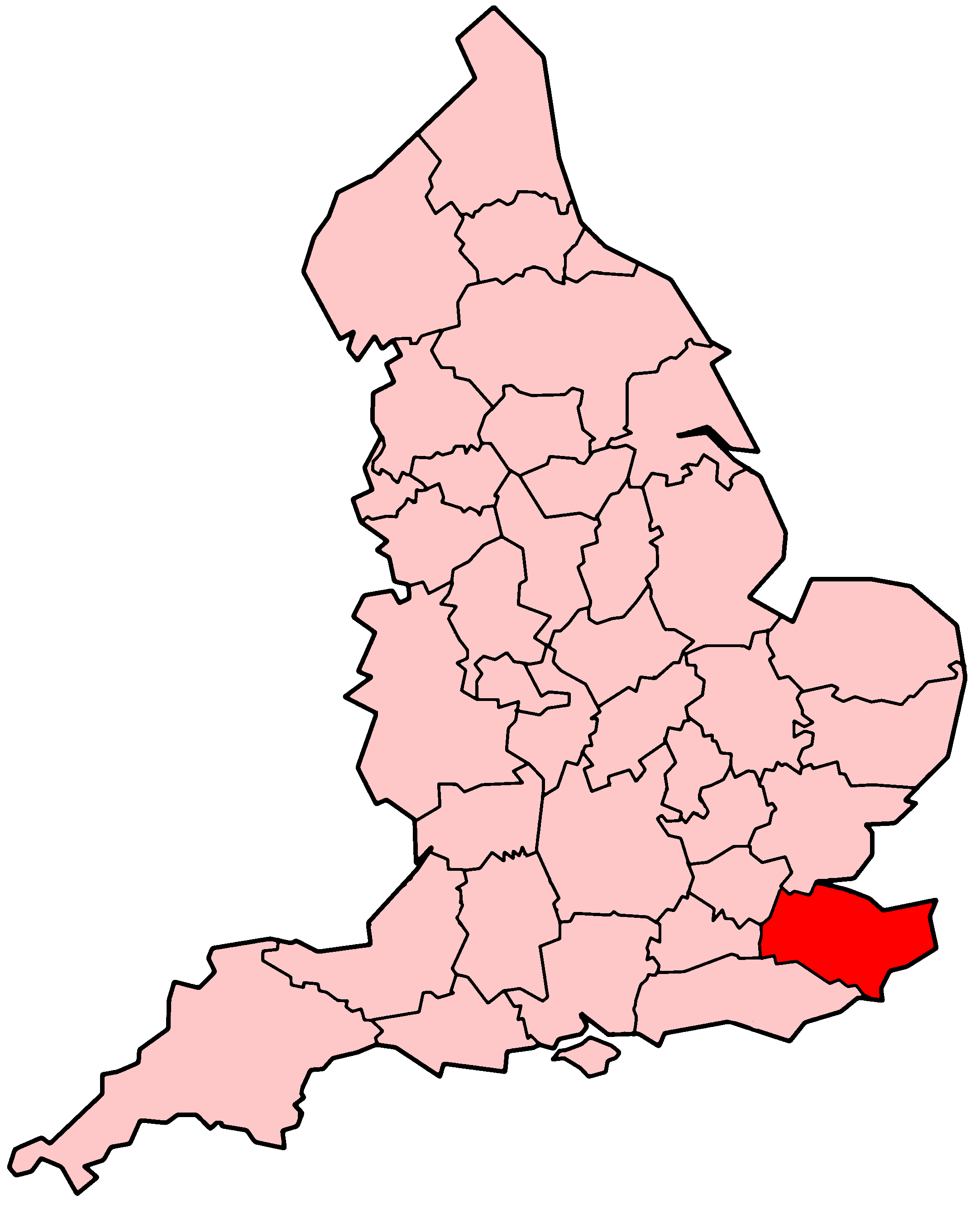 Map of Kent police district